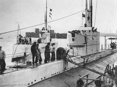 AWM Caption: "PORTSMOUTH, ENGLAND. C.1927. PORT BOW VIEWS OF HMA SUBMARINES OXLEY (I) AND OTWAY (I) (IN THE BACKGROUND). NOTE THE TALL WIRELESS MAST AND EXTENDED PERISCOPES. (NAVAL HISTORICAL COLLECTION)"